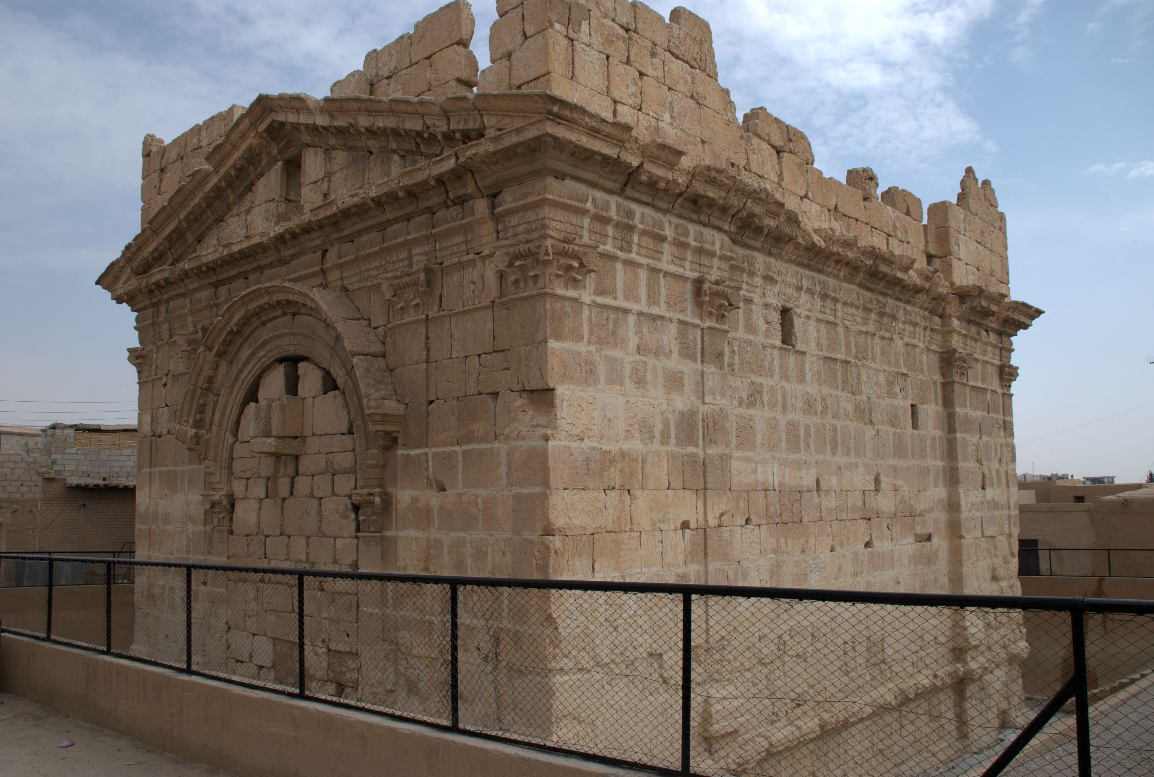 Al-Dumayr, Syria, roman temple from northwest